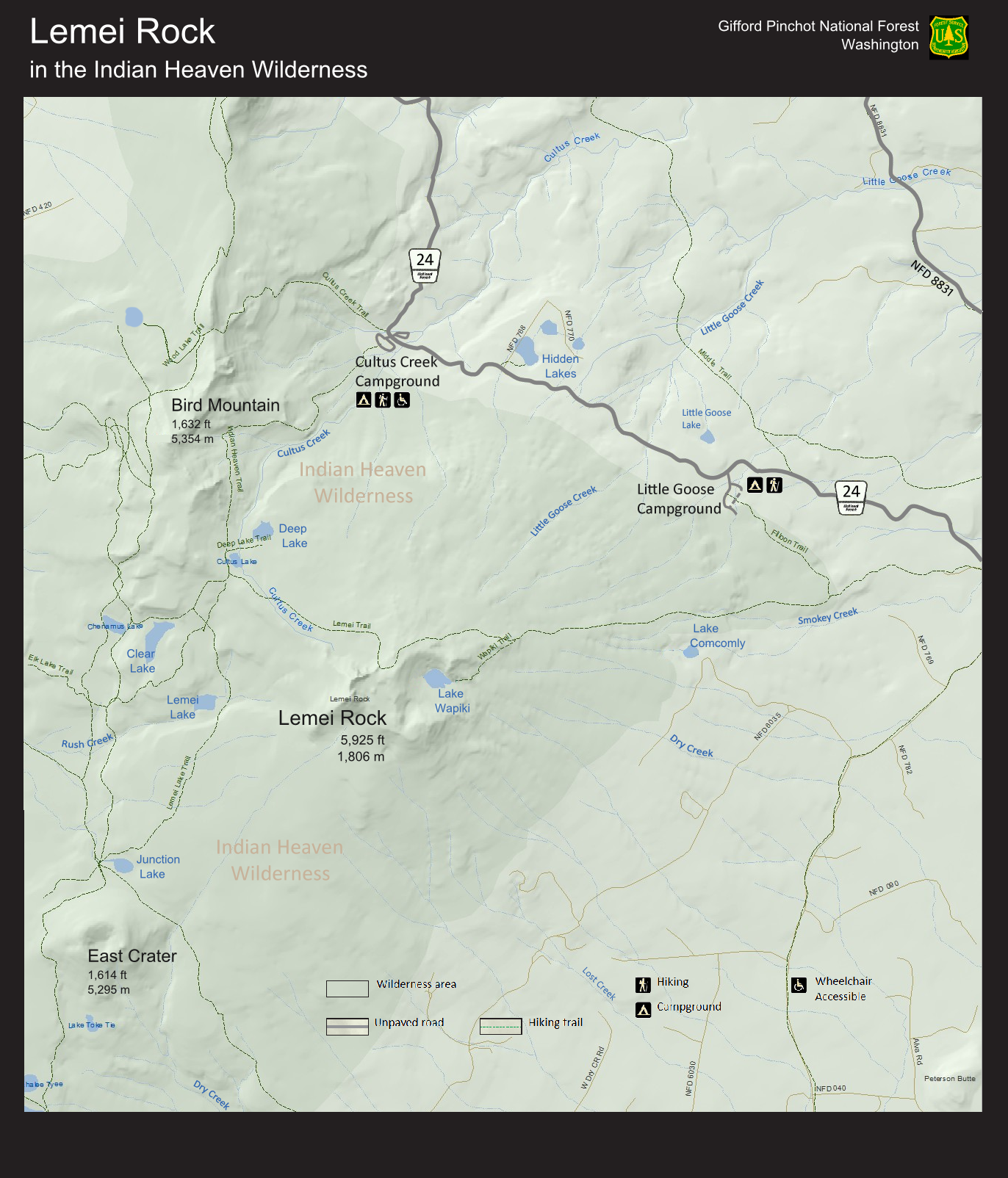 Map shows trails, major landforms, major lakes, and recreational facilities centering around the shield volcano called Lemei Rock, the highest point in the Indian Heaven Wilderness and the Indian Heaven Volcanic Field, located in the South Cascades region within Skamina County and the Gifford Pinchot National Forest in southern Washington. Map highlights includes: Bird Mountain, East Crater, Cultus Creek Campground, Little Goose Campground, and many lakes.